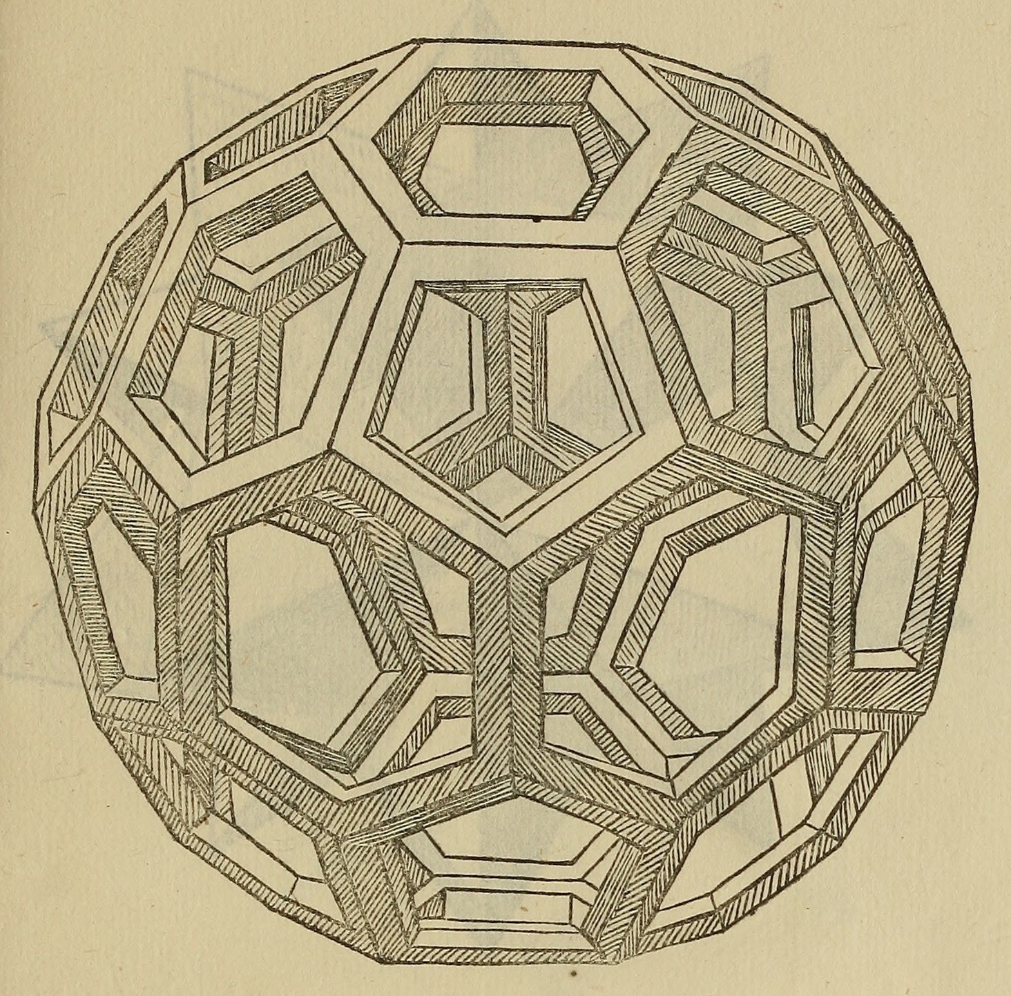 Illustrations by Leonardo da Vinci, from Luca Pacioli's "De divina proportione", 1509 edition.